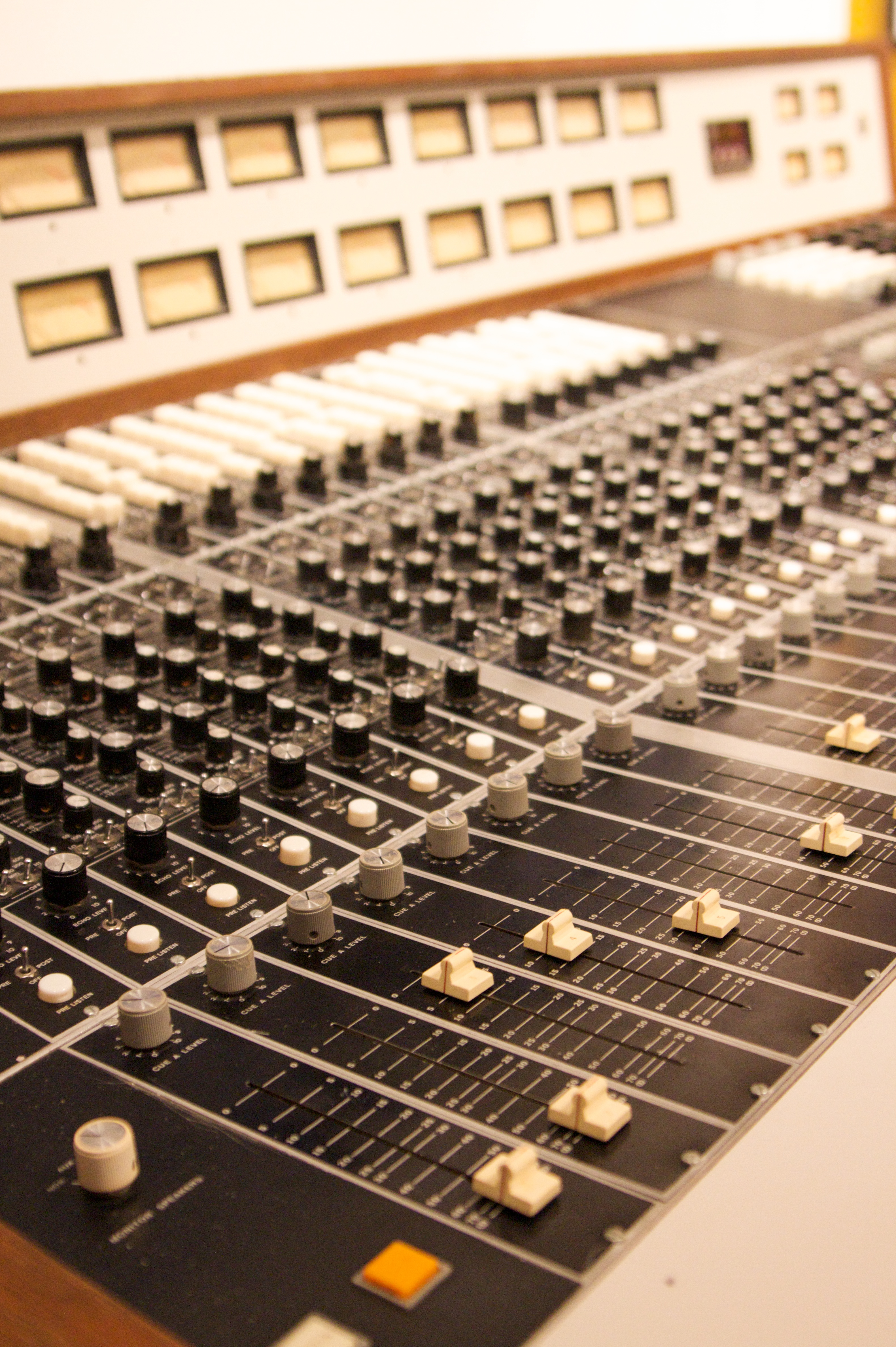 Old Ardent Studio Board, Memphis Rock N' Soul Museum